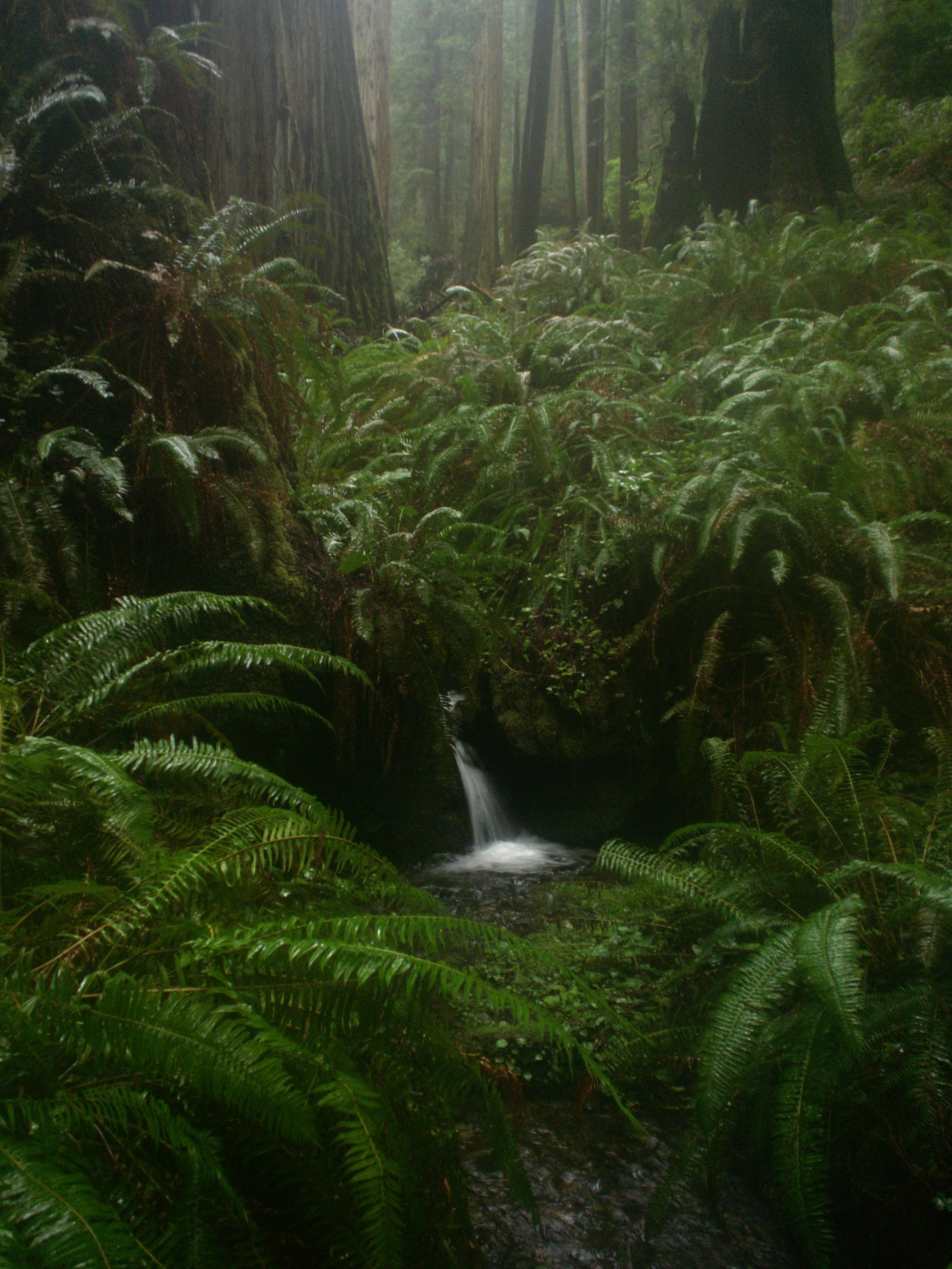 A waterfall on Rhododendron Trail, in the temperate rainforest at Prairie Creek Redwoods State Park. With Sequoia sempervirens trees and Polystichum munitum ferns. In Humboldt County, California.